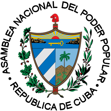 Seal of the National Assembly of People's Power